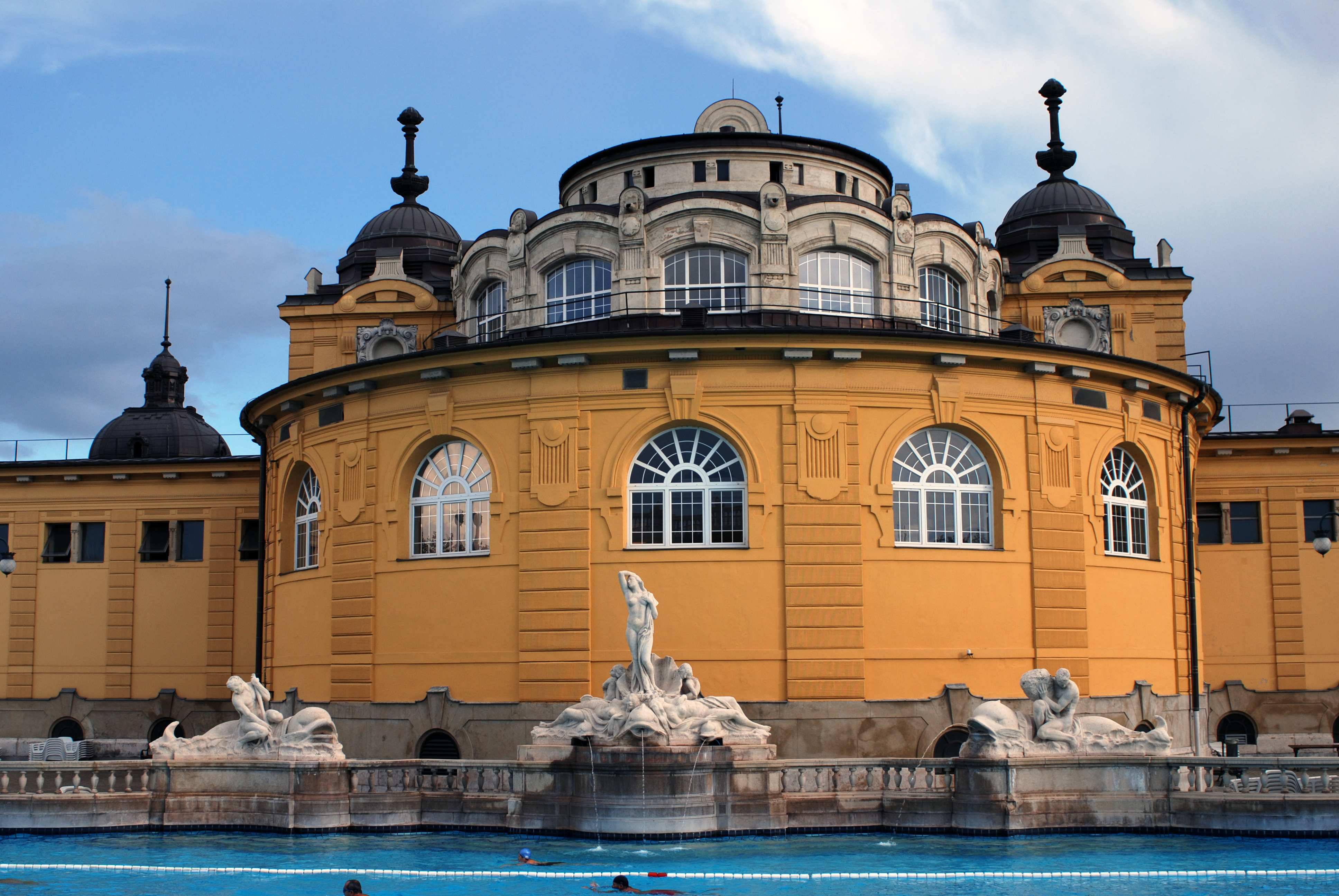 Budapest thermal spa Széchenyi Gyógyfürdő. Building with inside pools from outside.